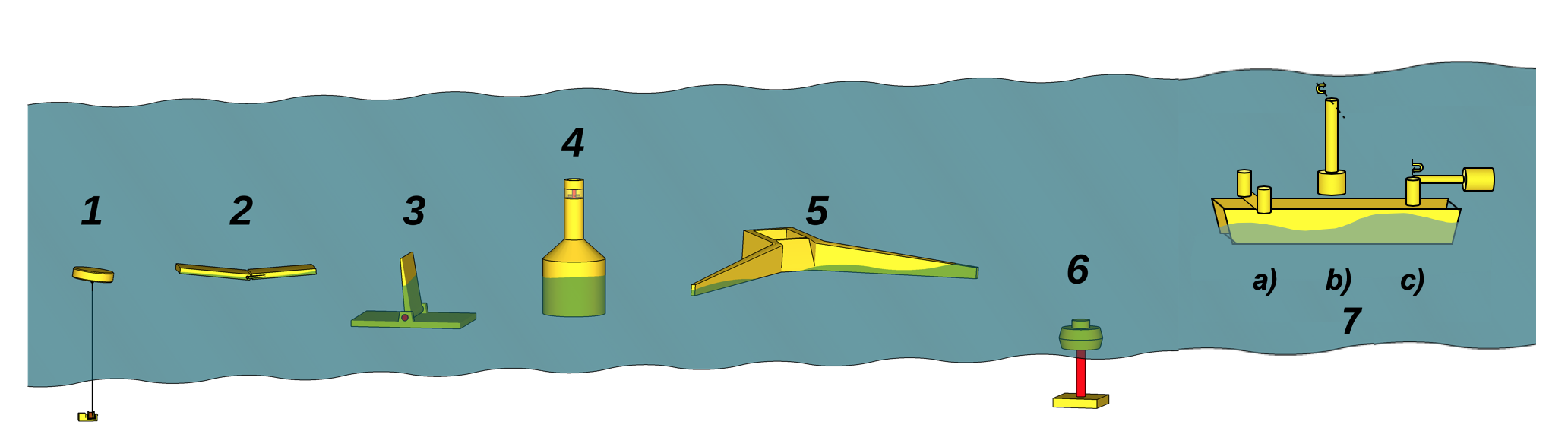 WEC concepts